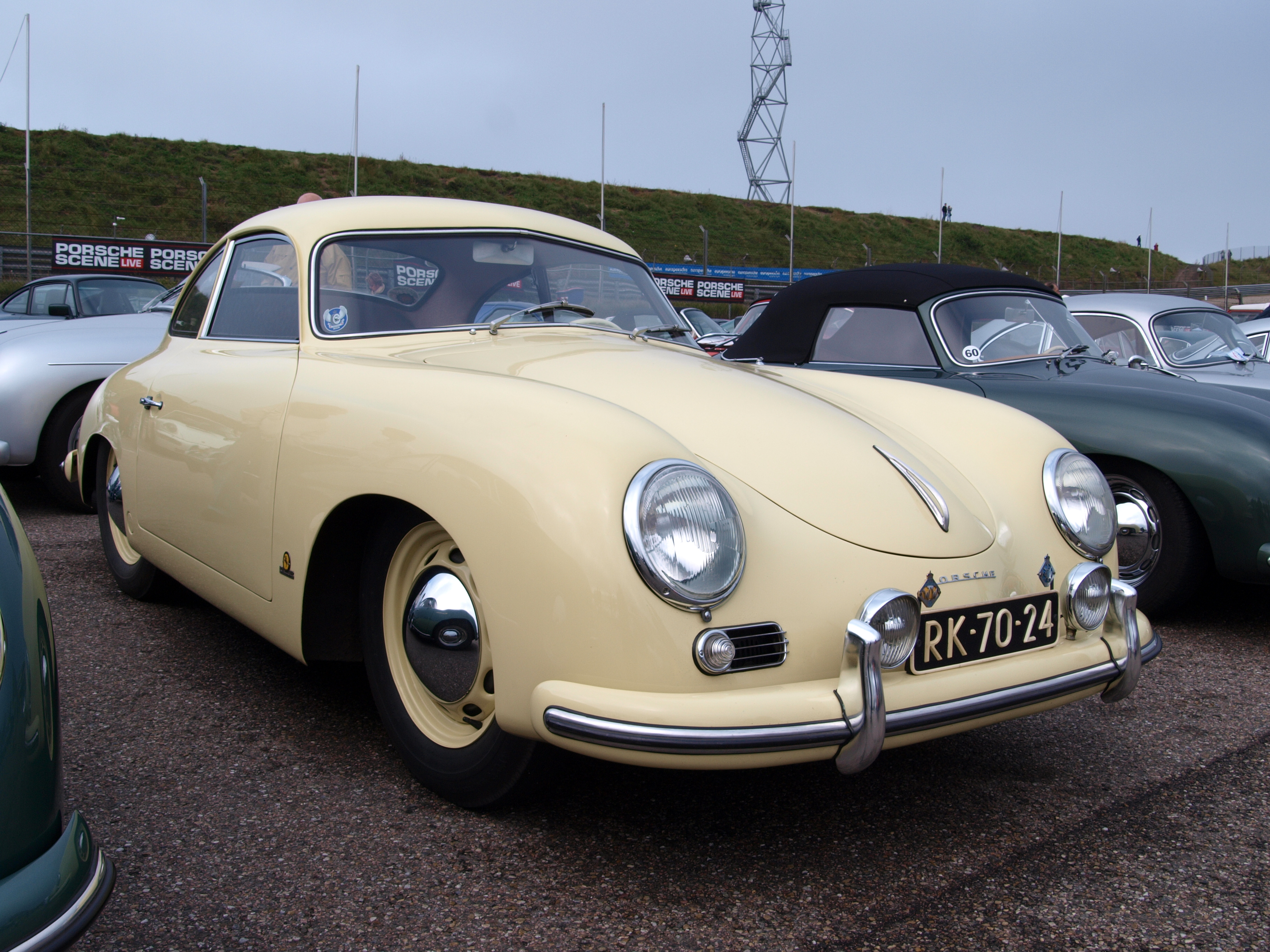 Photographed at the Nationaal Oldtimer Festival Zandvoort 2010, The Netherlands.